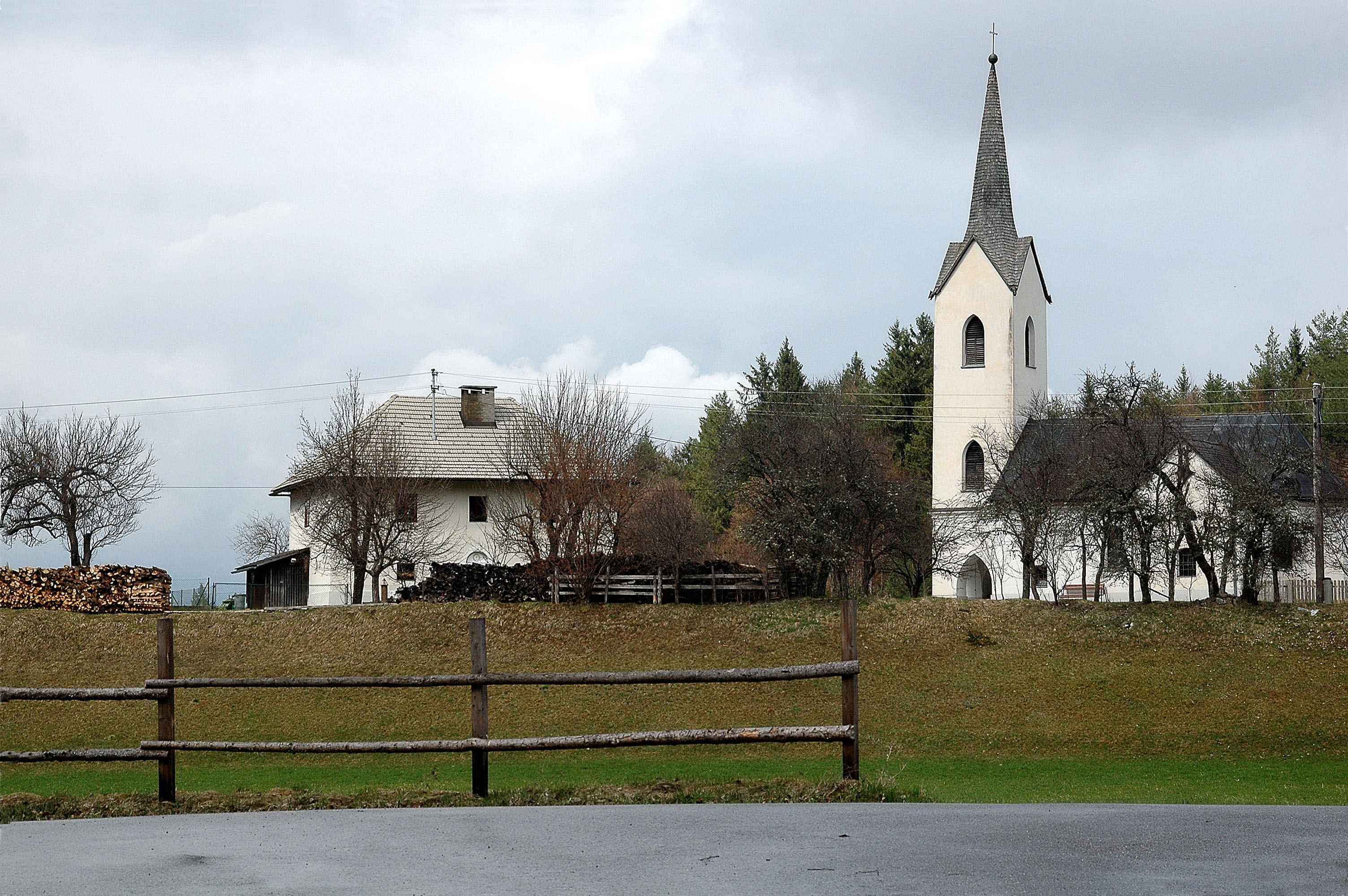 Parish church Holy Trinity in Rubland, market town Paternion, district Villach Land, Carinthia, Austria, EU